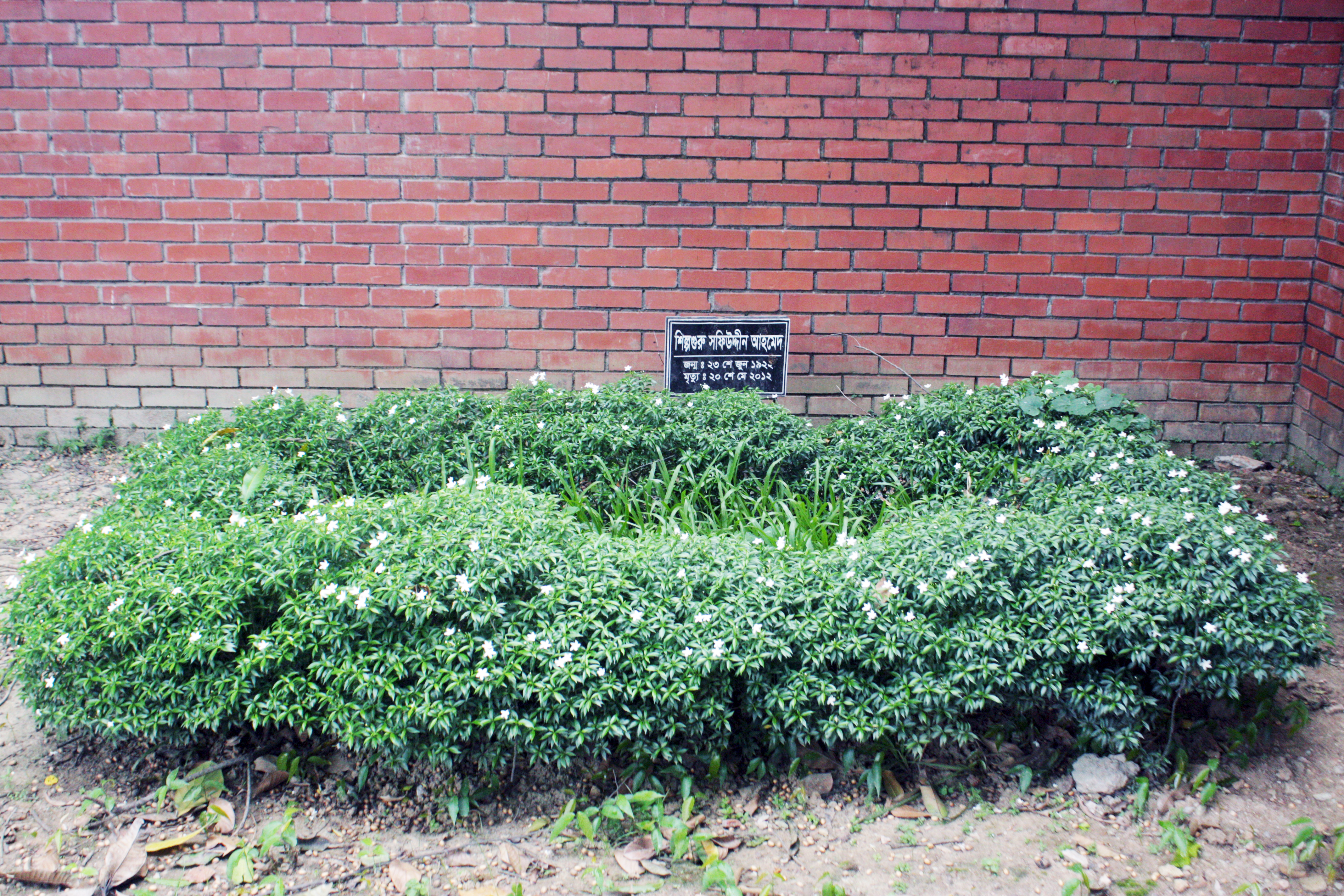 Tomb of Safiuddin Ahmed (1922-2012) buried beside the central mosque of the University of Dhaka. He was a famous Bengali artist.